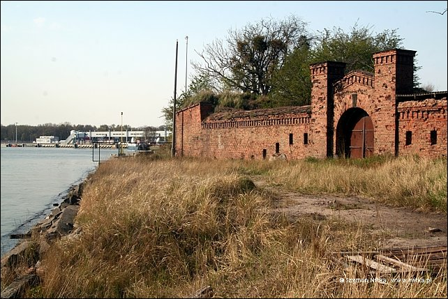 Szaniec Mewi in Gdańsk.